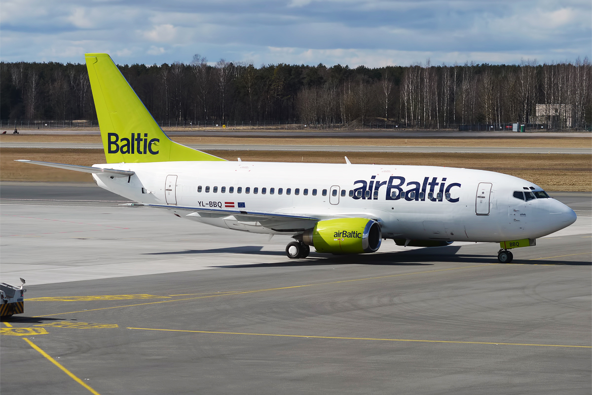 Air Baltic, YL-BBQ, Boeing 737-522